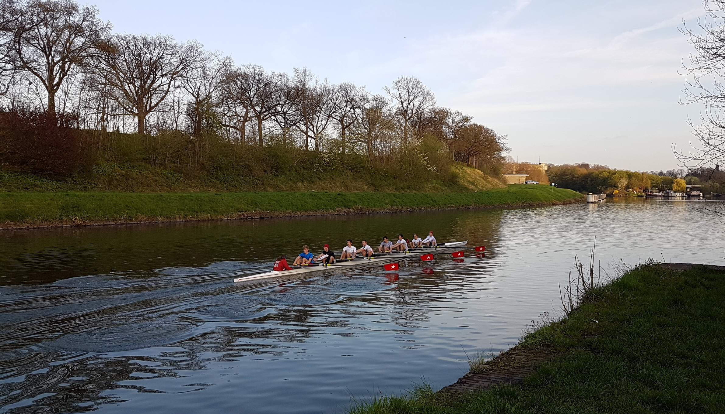 Rowers of M.S.R.V. Saurus in Zuid-Willemsvaart near their clubhouse and boathouse, Maastricht, Netherlands.